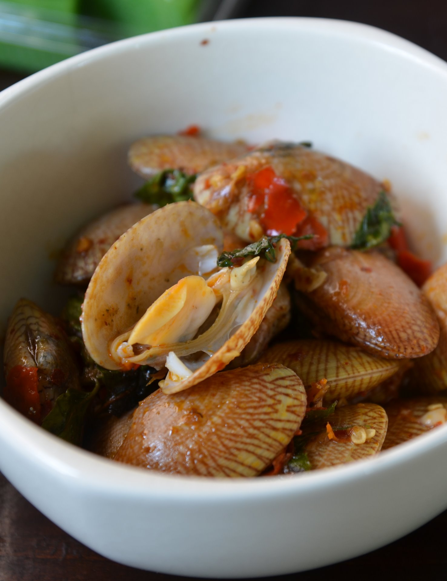 Kraphao hoi lai (Thai script: กะเพราหอยลาย): Undulated Venus clam stir-fried with holy basil ("Ocimum tenuiflorum").